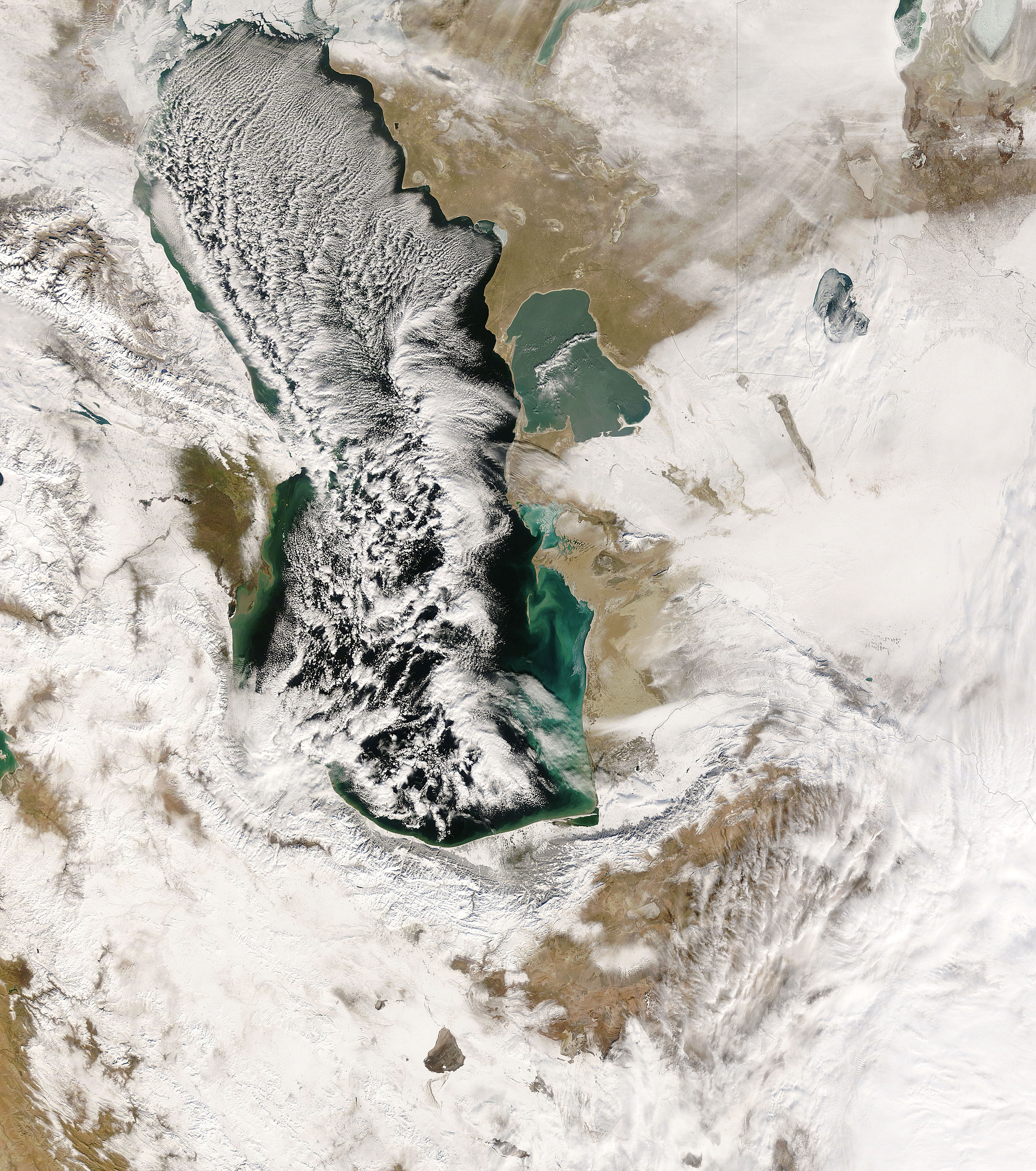 satellite image of Caspian sea and north of Iran on Jan 07 2008